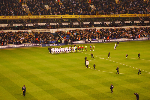 UEFA Cup 2006-07 match. Tottenham Hotspur FC - Sporting Braga.